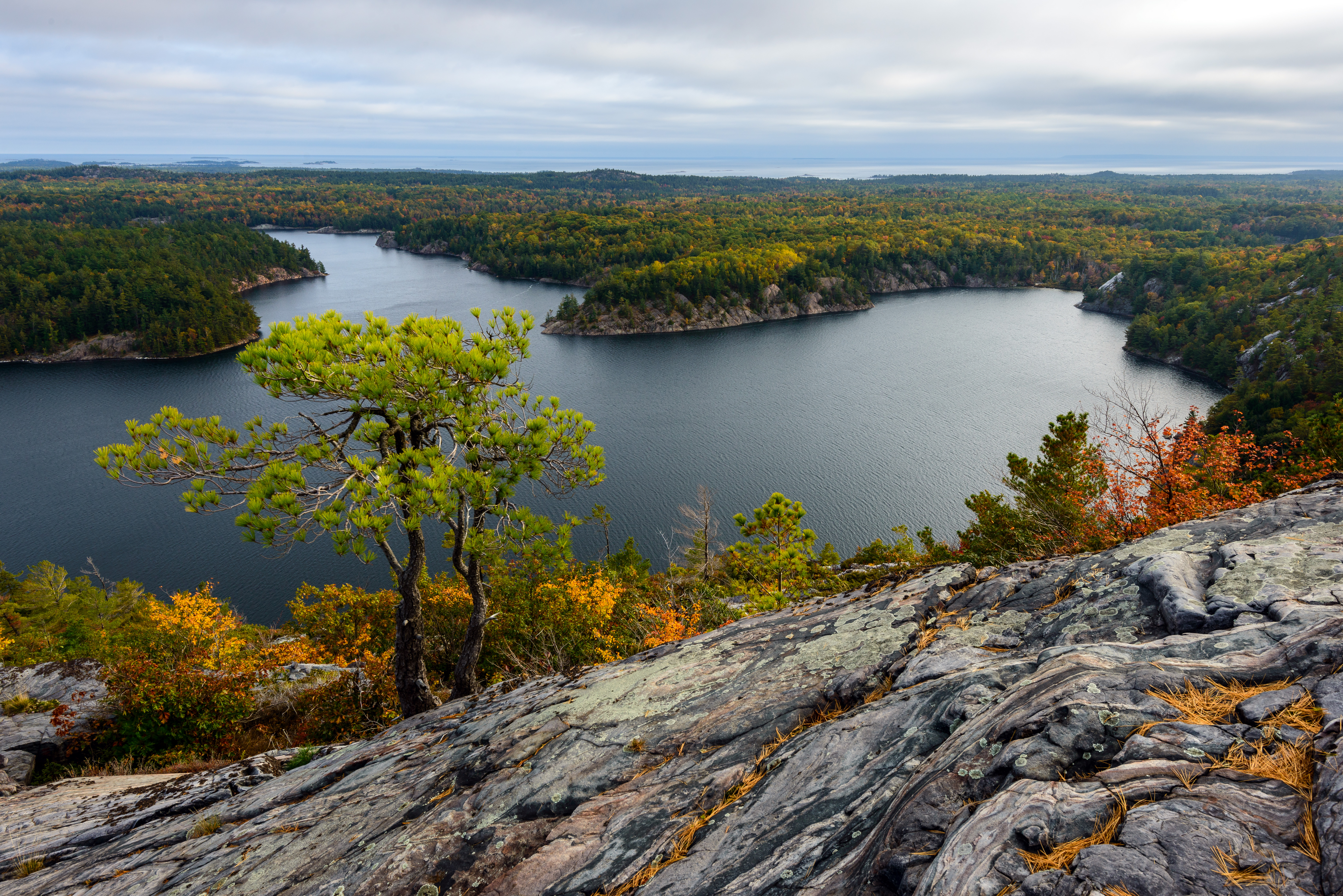 Canada, Ontario. Killarney provincial park.